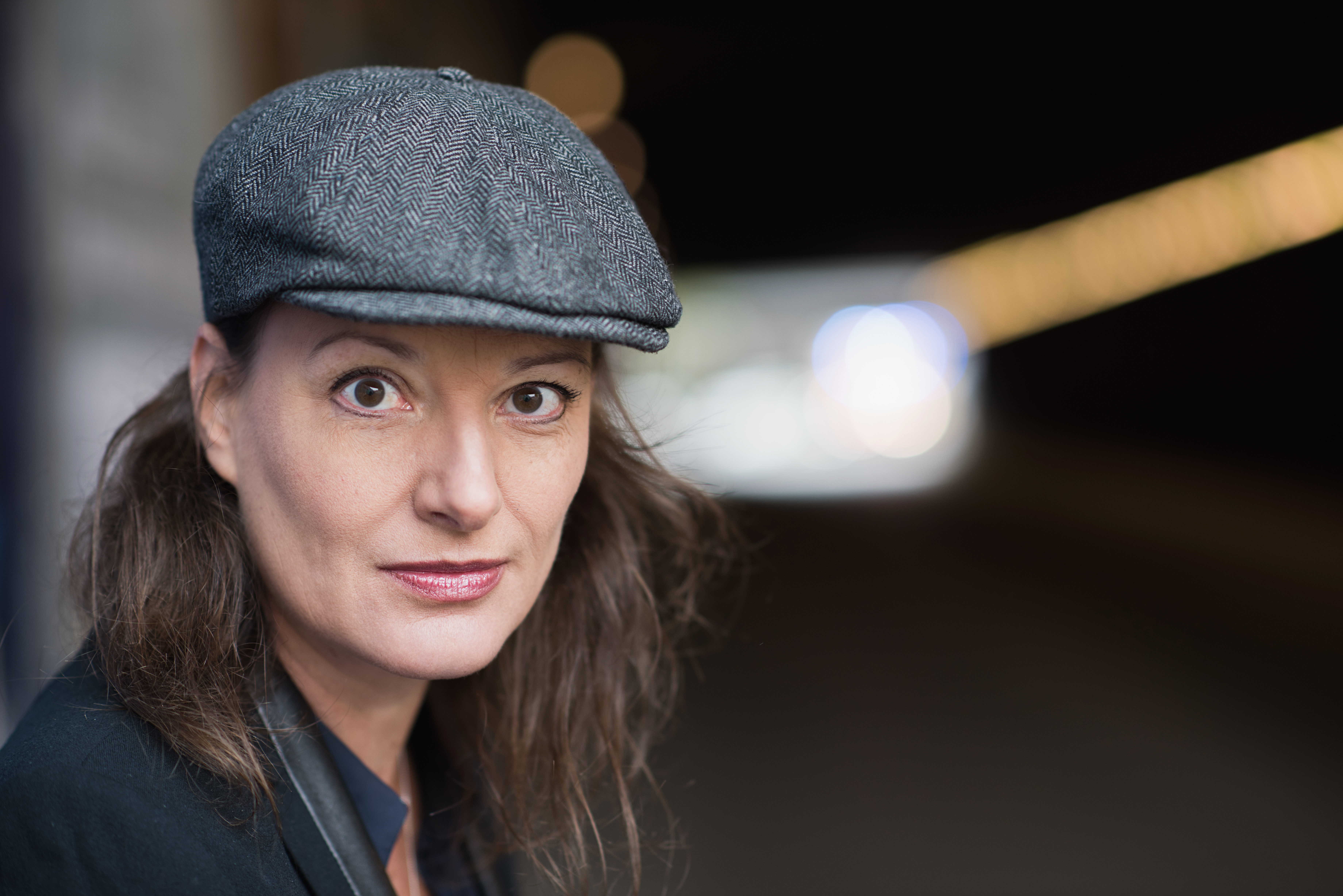 Sonja Kling, October 2018 - Foto taken by Gila Sonderwald